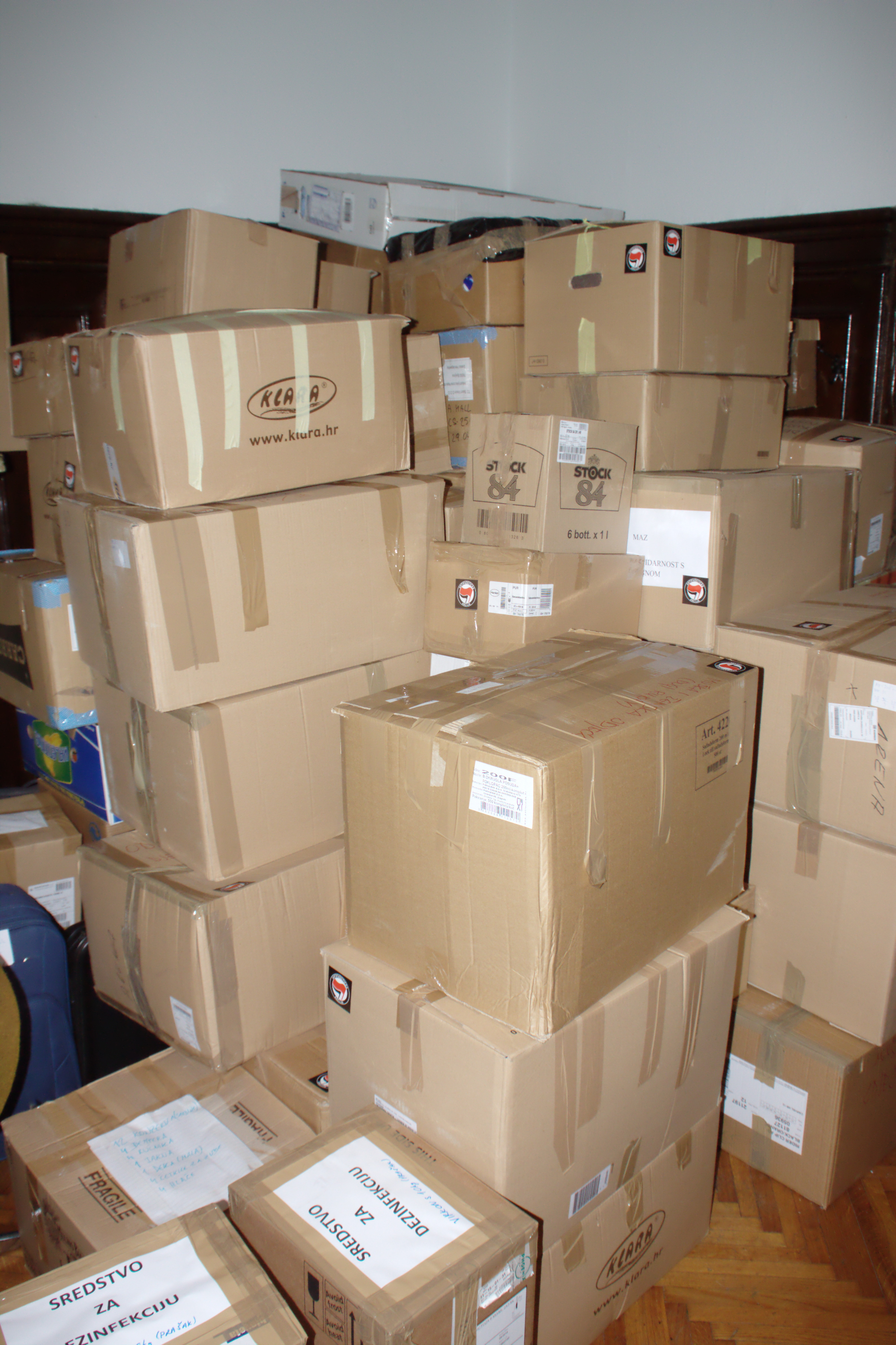 Humanitarian aid for victims of 2014 flood. The stuff was collected in Zagreb and sent to Prijedor in Bosnia/Herzegovina